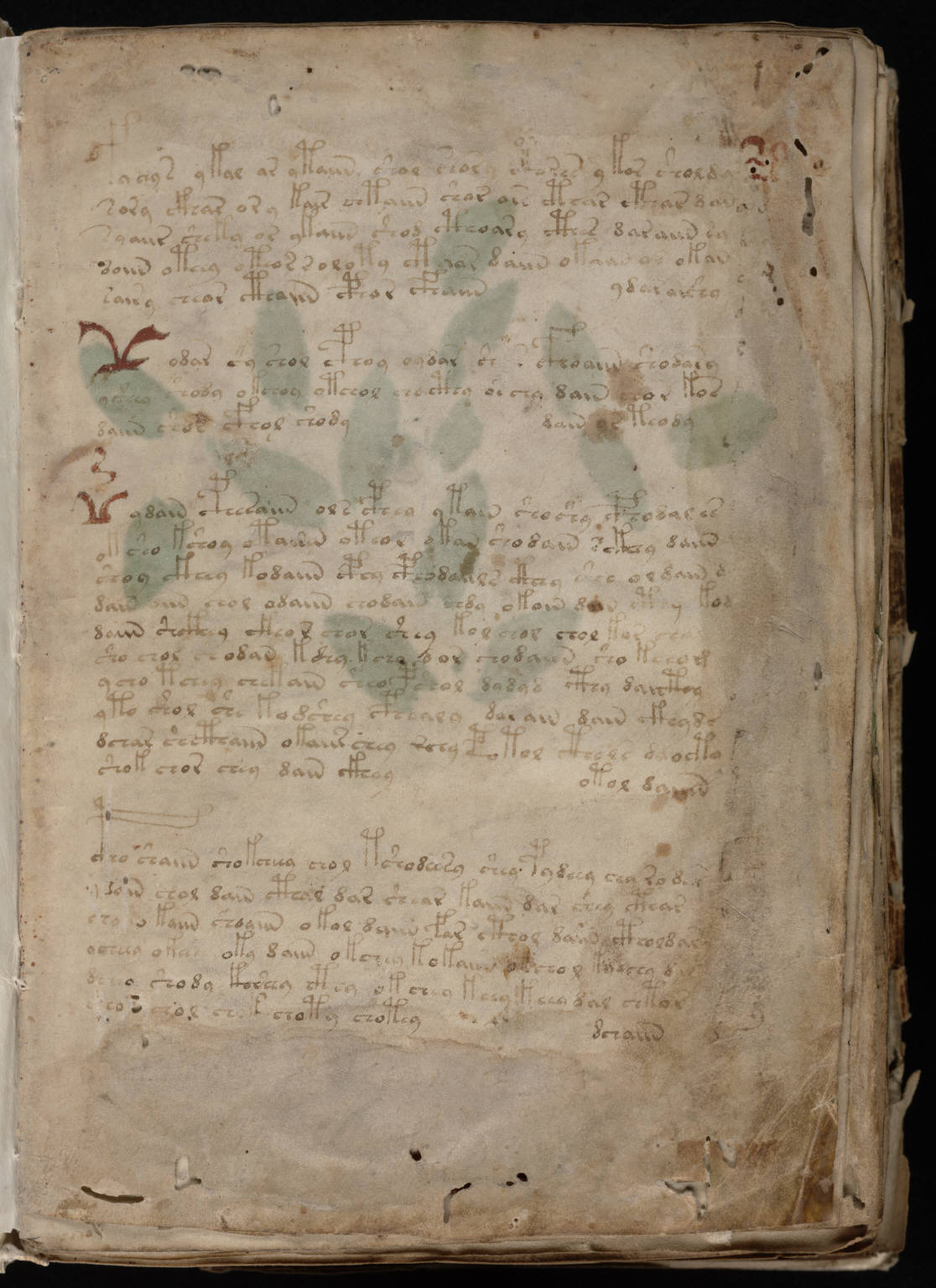 A page from the mysterious Voynich manuscript, which is undeciphered to this day.